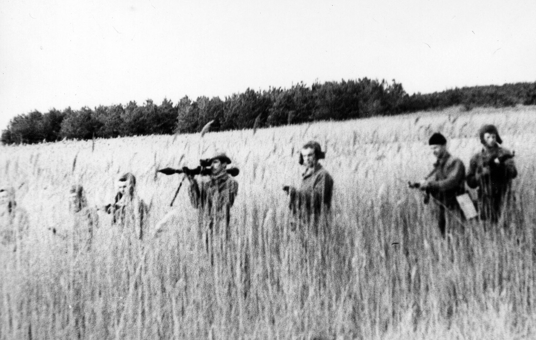 scouts 17th Brigade special operations forces of USSR Navy, team of lieutenant commander Anatoliy Karpenko